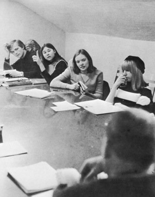 Photograph of Shimer College class circa 1967.